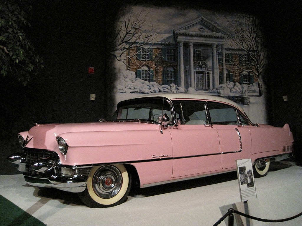 Elvis Presley Automobile Museum at Graceland in Memphis, Tennessee. 1955 Cadillac Fleetwood